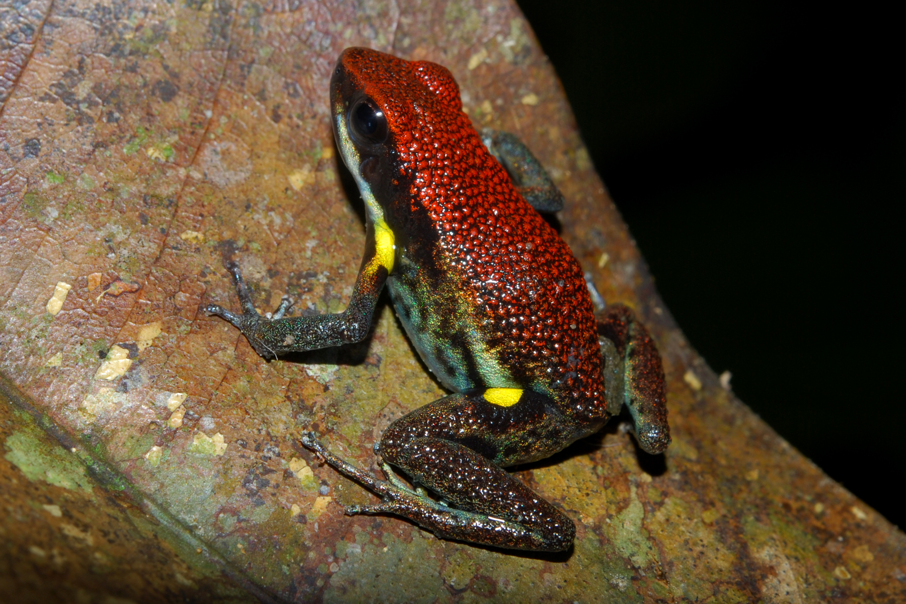 An Ecuador poison frog at Coca, Orellano, Ecuador.